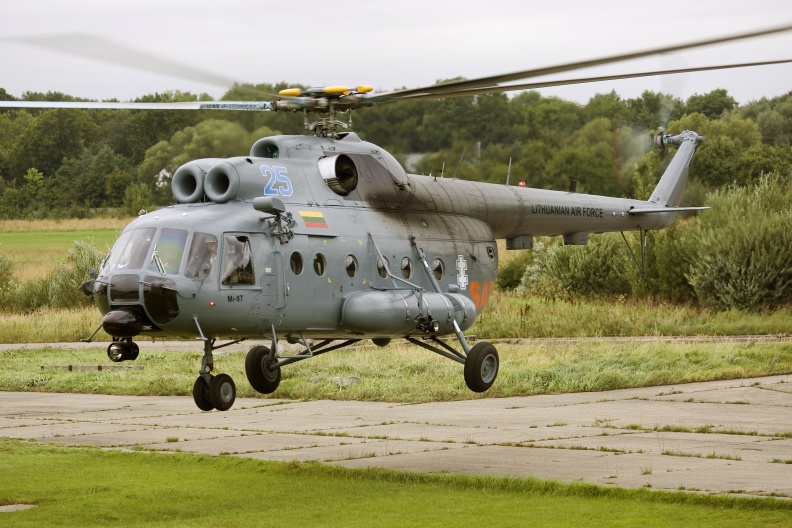 Mi-8 Helicopter